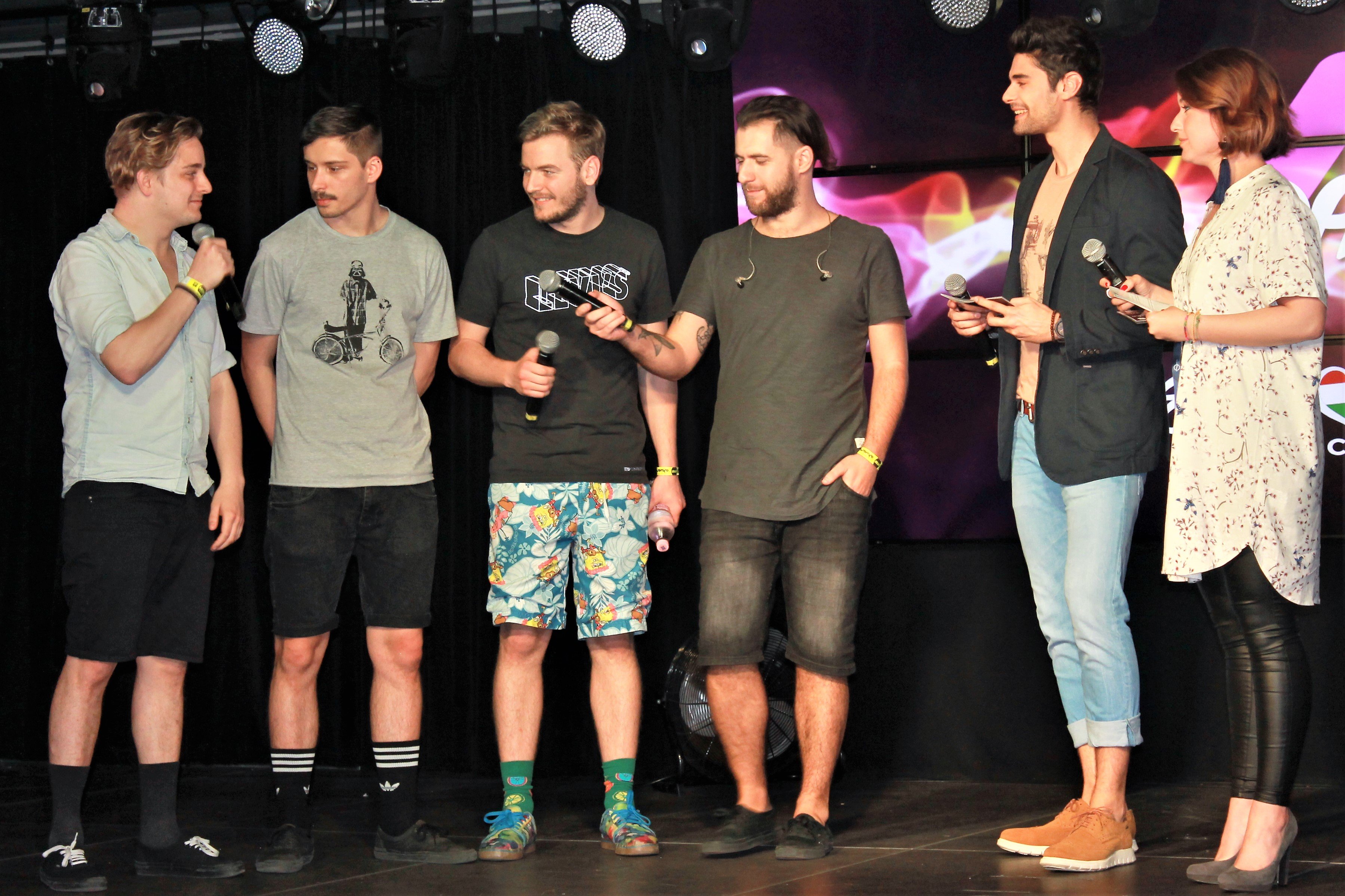 The band AWS: Örs Siklósi, singer; Soma Schiszler, bass; Áron Veress, drums; Bence Brucker, guitar: the Hungarian representatives at the Eurovision Song Contest 2018; Freddie and Kriszta Rátonyi, the commentators for the Hungarian transmission of the Eurovision Song Contest. (r–l)